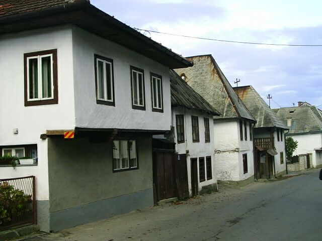 Kreševo, a town in Bosnia and Herzegovina